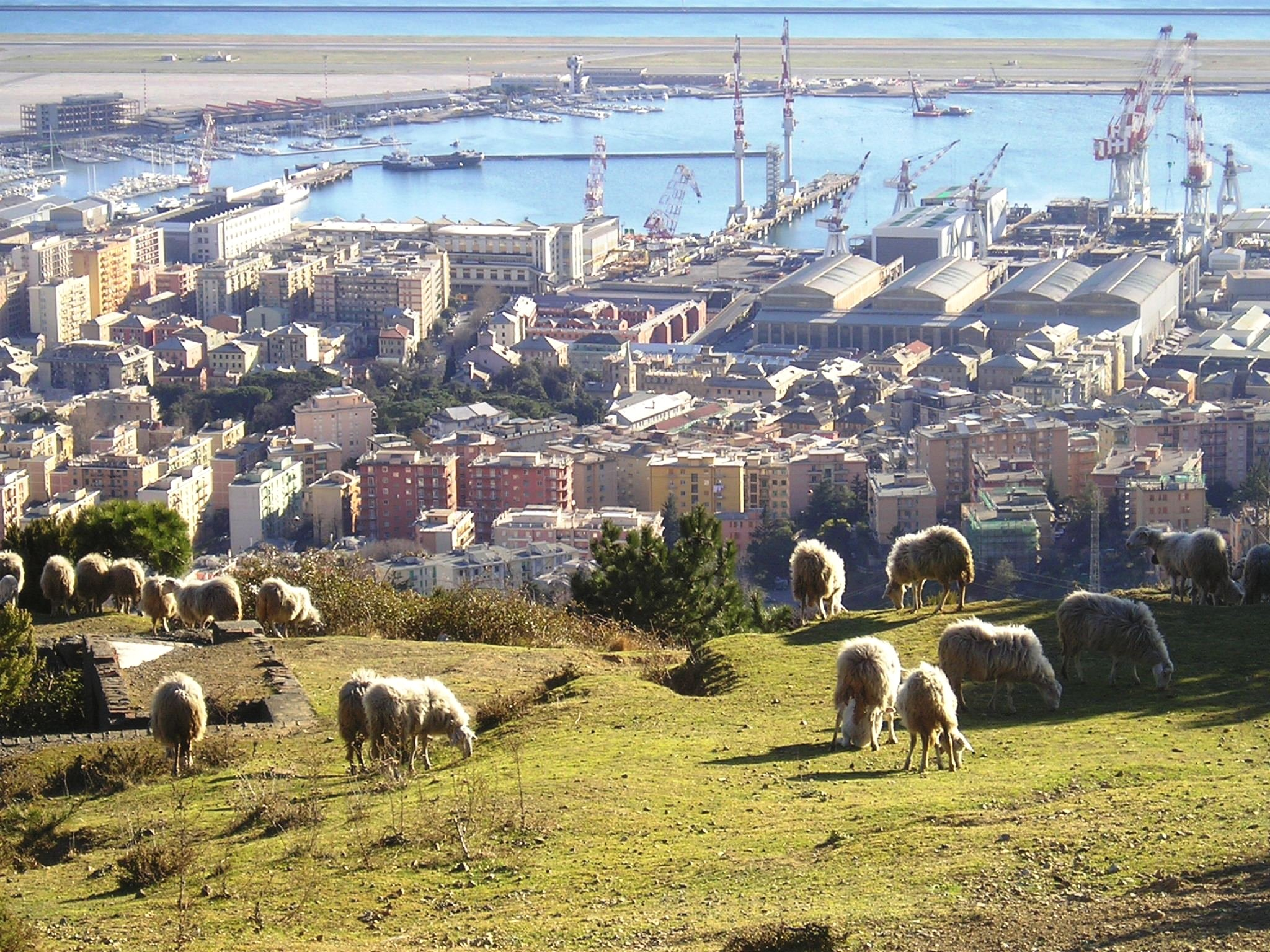 View of Sestri Ponente (Genoa) with Fincantieri factory and Cristoforo Colombo Airport.